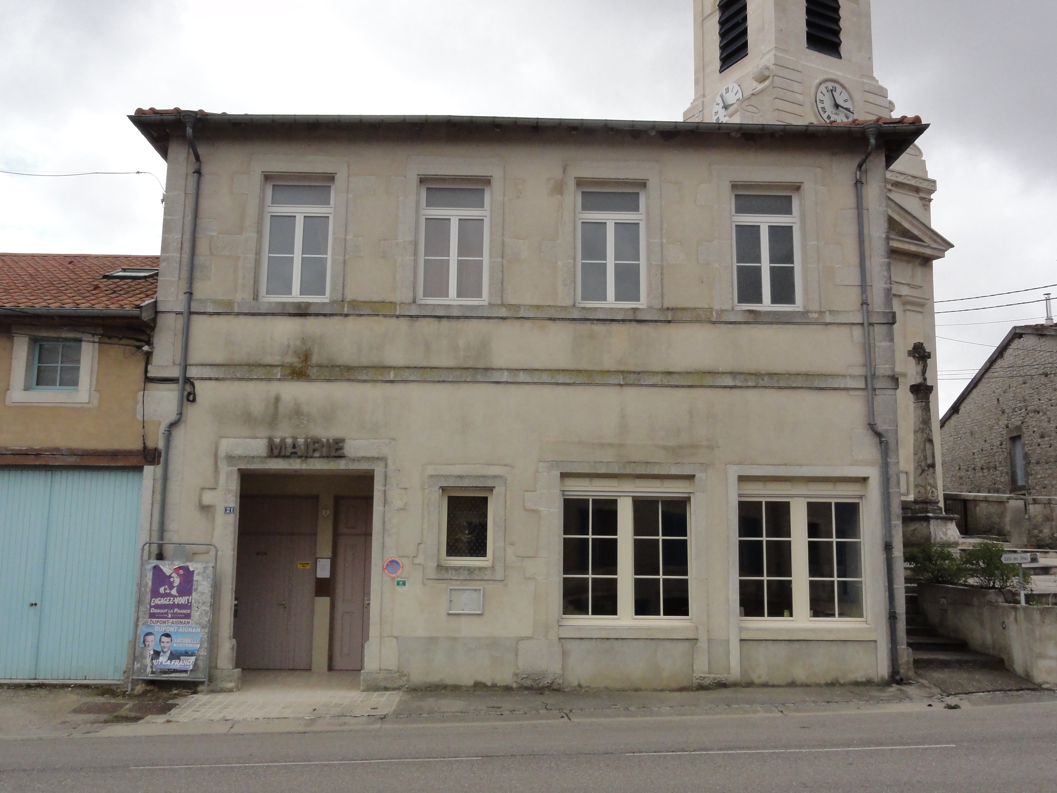 Méligny-le-Petit (Meuse) mairie